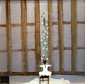 Summer series: female figure